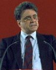 Achille Occhetto, PDS, Italy